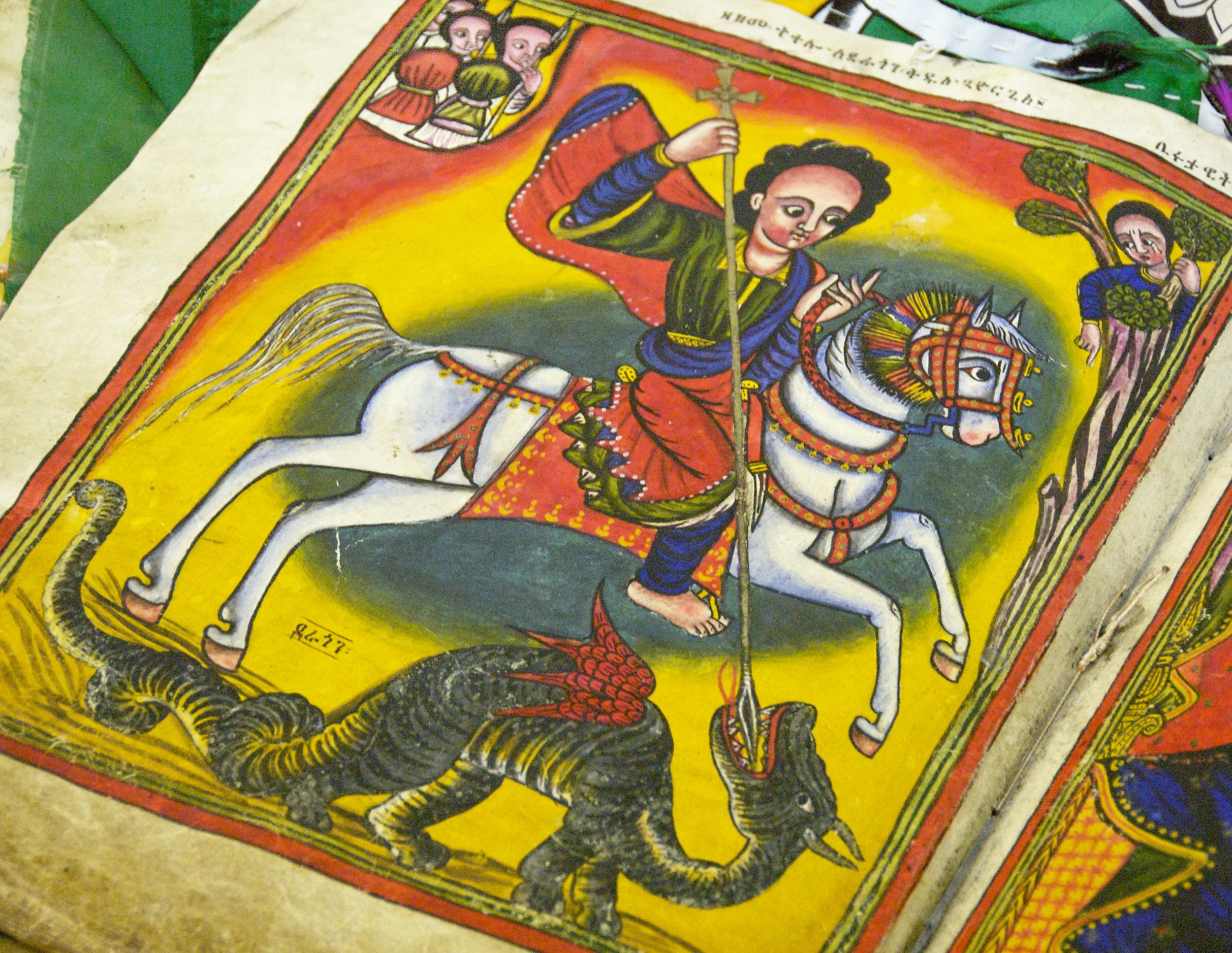 St. George is Ethiopia's patron saint. I was told the woman in the tree, which appears in all George-and-Dragon images in Ethiopia, represents Ethiopia in distress. Unlike some Ethiopian dragons in this famous scene, who are actually somewhat attractive, this reptile is thoroughly repellent. His long, oddly striated tail gives me the creeps! Visitors to the new Church of St. Mary of Zion in Axum, Ethiopia, are fortunate enough to receive a showing of several ancient books containing exquisite paintings of biblical scenes. I wasn't able to ascertain their age during my visit to the church, but one of my well-informed viewers states they are from the Gondarine Dynasty that arose after the Muslim incursions of the 16th century, which would date them to the 17th or 18th century.